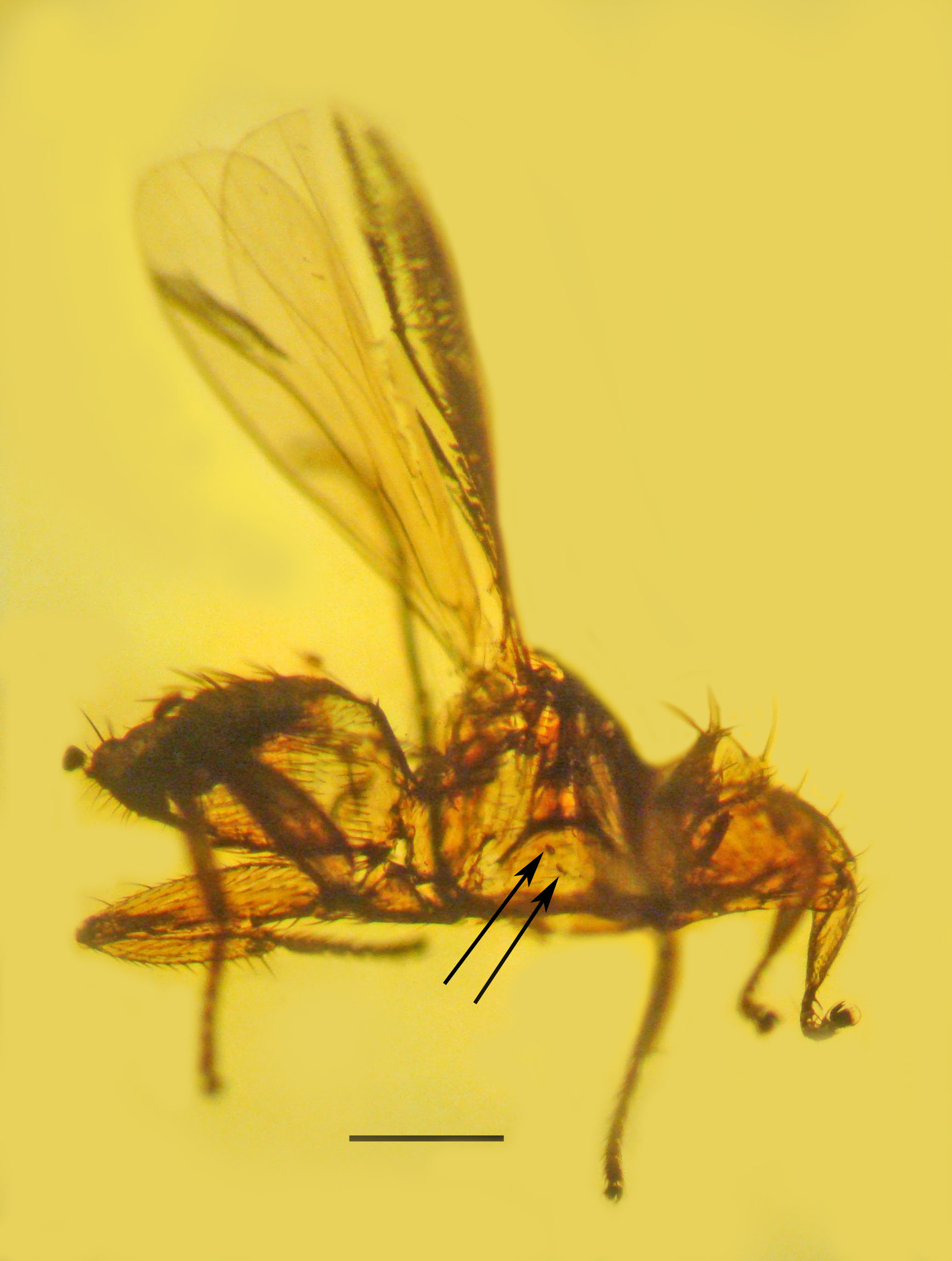 Two oocysts (arrows) of Vetufebrus ovatus on the gut wall of the streblid bat fly Enischnomyia stegosoma in Dominican amber. Poinar amber collection No. D-7-239; Oregon State University, Corvallis, Oregon Bar = 272 μm.